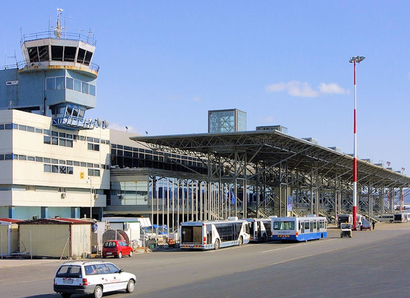 Thessaloniki airport terminal